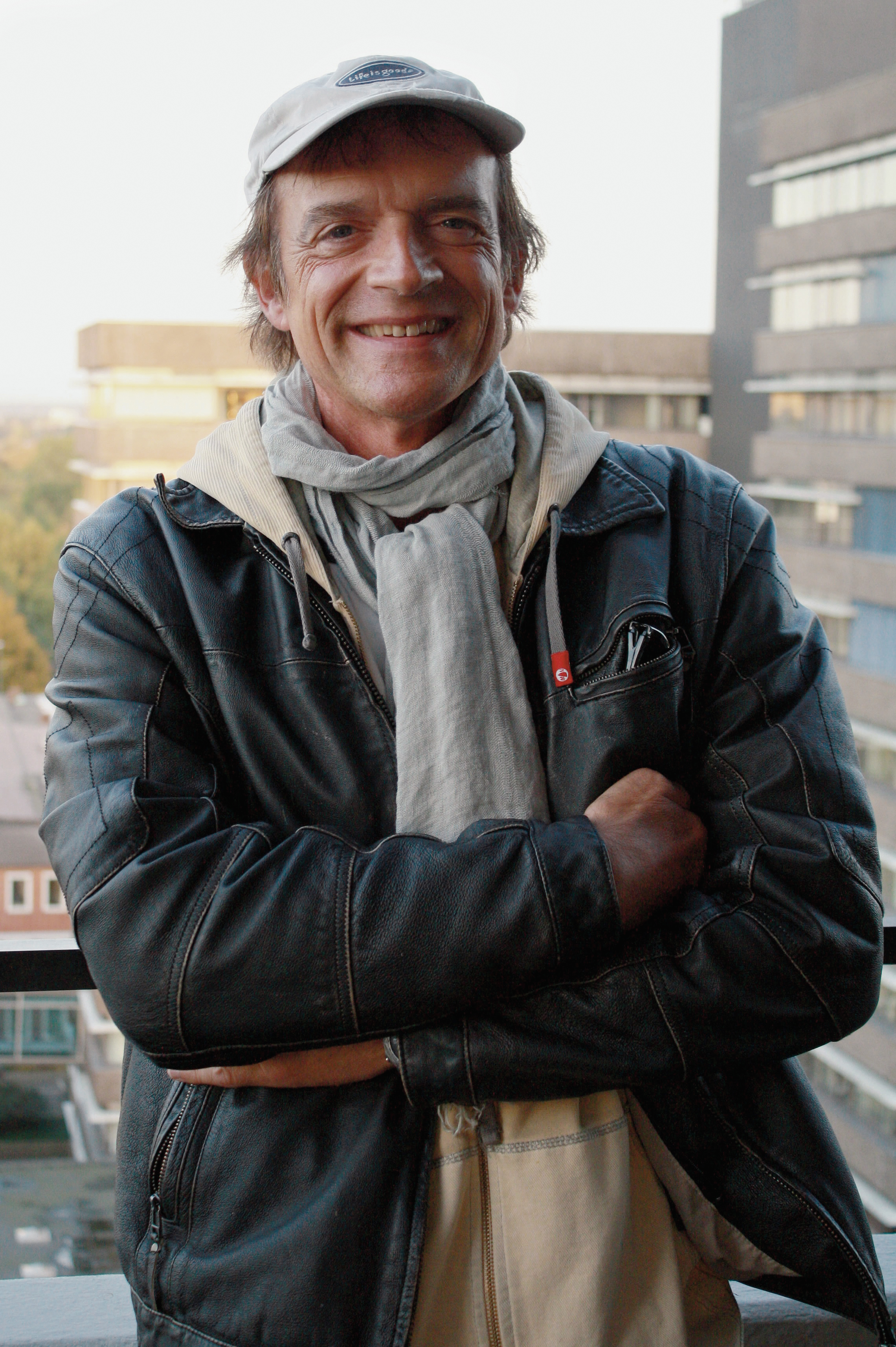 Voice actor Robert Missler